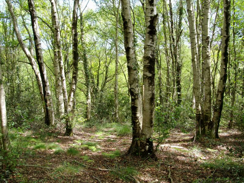 Birchs in the Basque Country. Aiartza forest. Derio. Biscay.